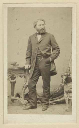 The german engraver Johann Leonhard Raab (1825-1899)